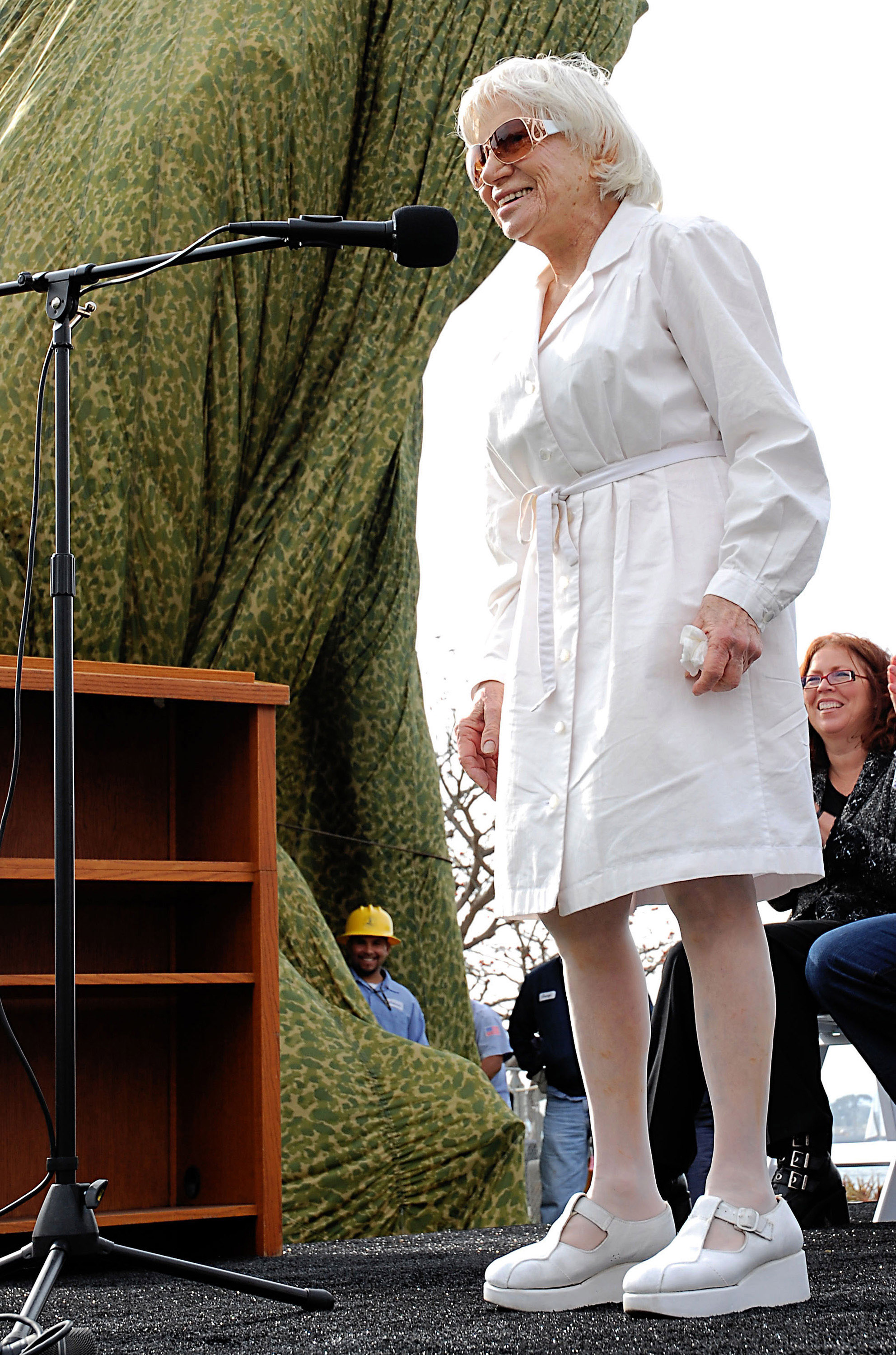 San Diego (Feb. 10, 2007) - The statue "Unconditional Surrender", which represents a famous photo taken by Alfred Eisenstaedt of a Sailor kissing a nurse in Time Square, New York City 1945, was dedicated to the city of San Diego. The 25-foot, 6,000-pound statue is a three-dimensional interpretation of the photo created by world-renowned artist J. Seward Johnson. Edith Shain, the nurse in the photo and guest of honor at the ceremony greeted the crowd. U.S. Navy photo by Mass Communication Specialist Seaman David A. Brandenburg (RELEASED)